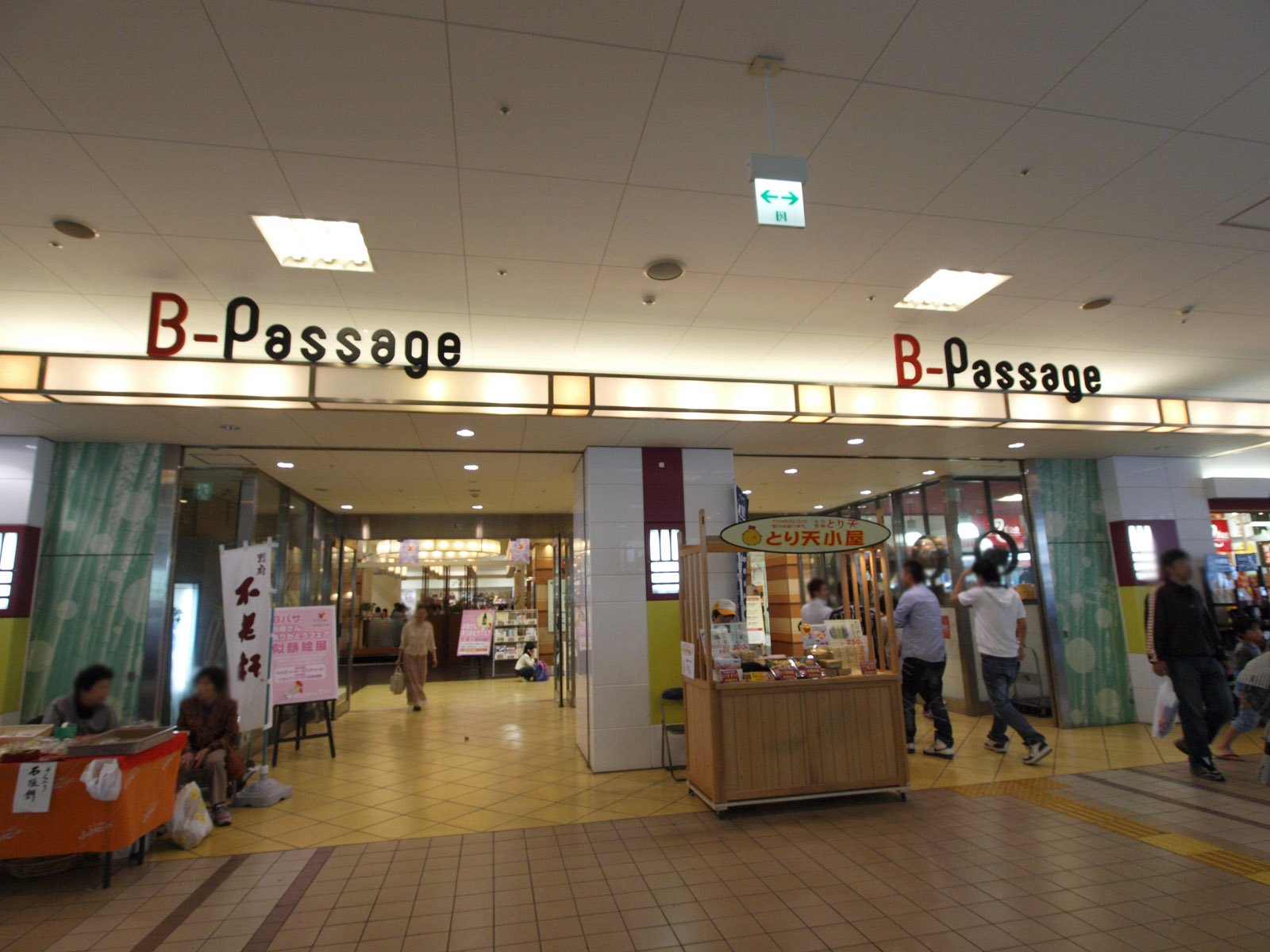 B-Passage at Beppu Station, Beppu City, Oita Prefecture